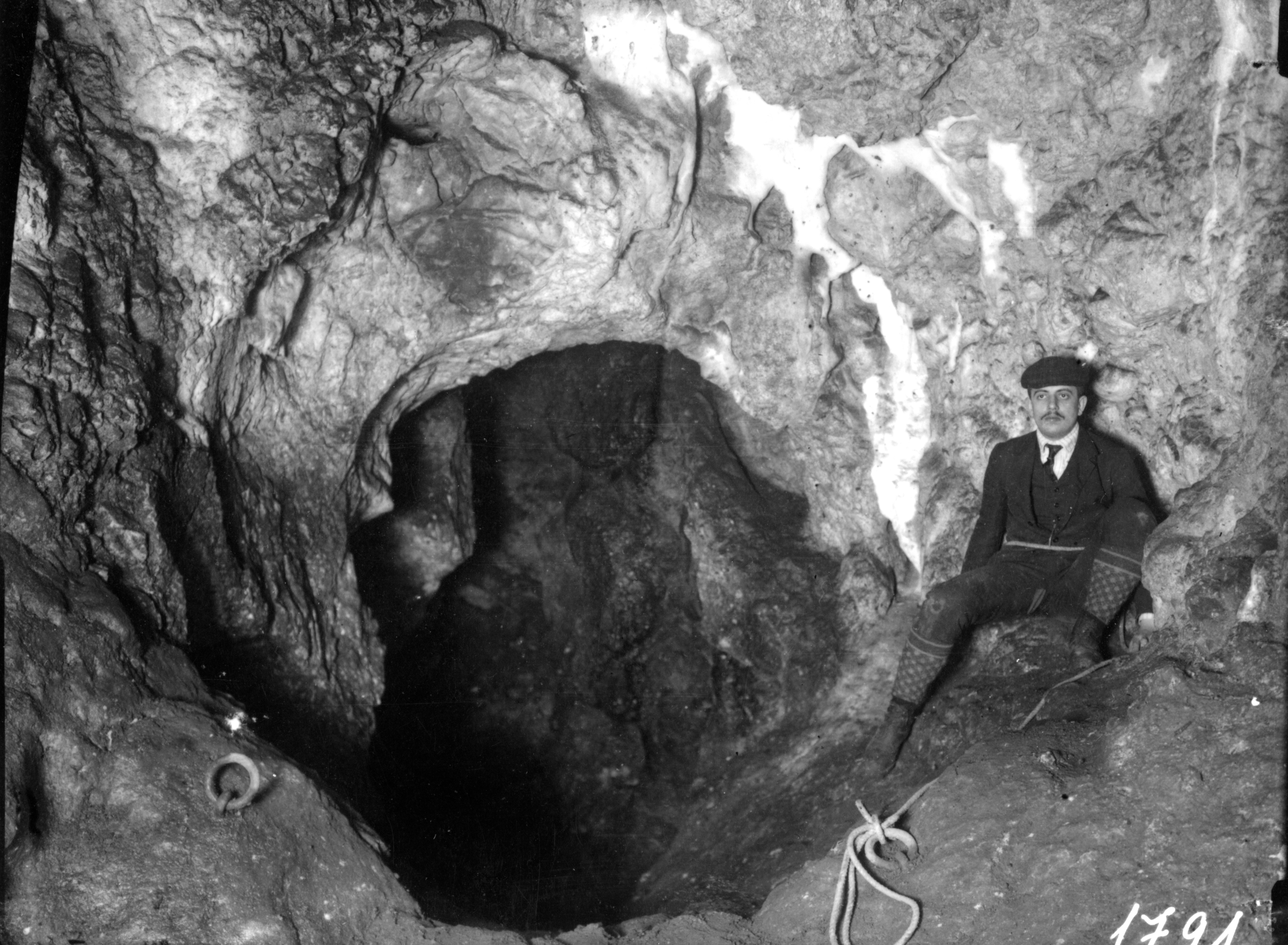 Solymár Cave